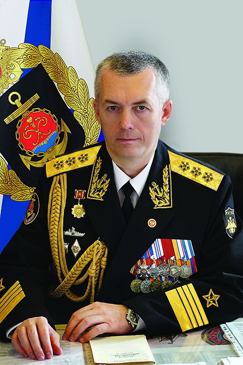 Командующий Балтийским флотом адмирал Носатов Александр Михайлович